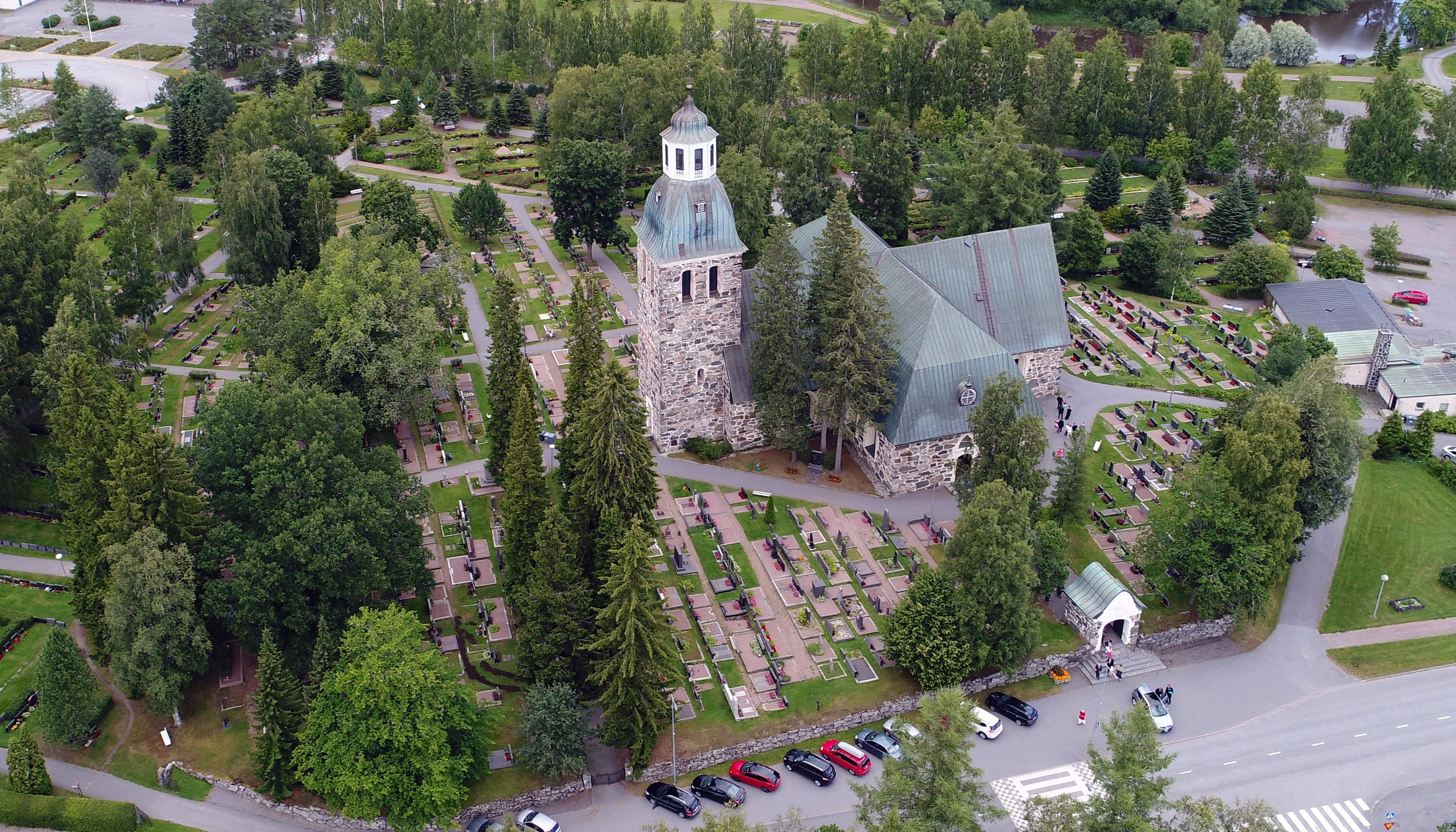 The church in Lauttakylä, Huittinen, Finland.